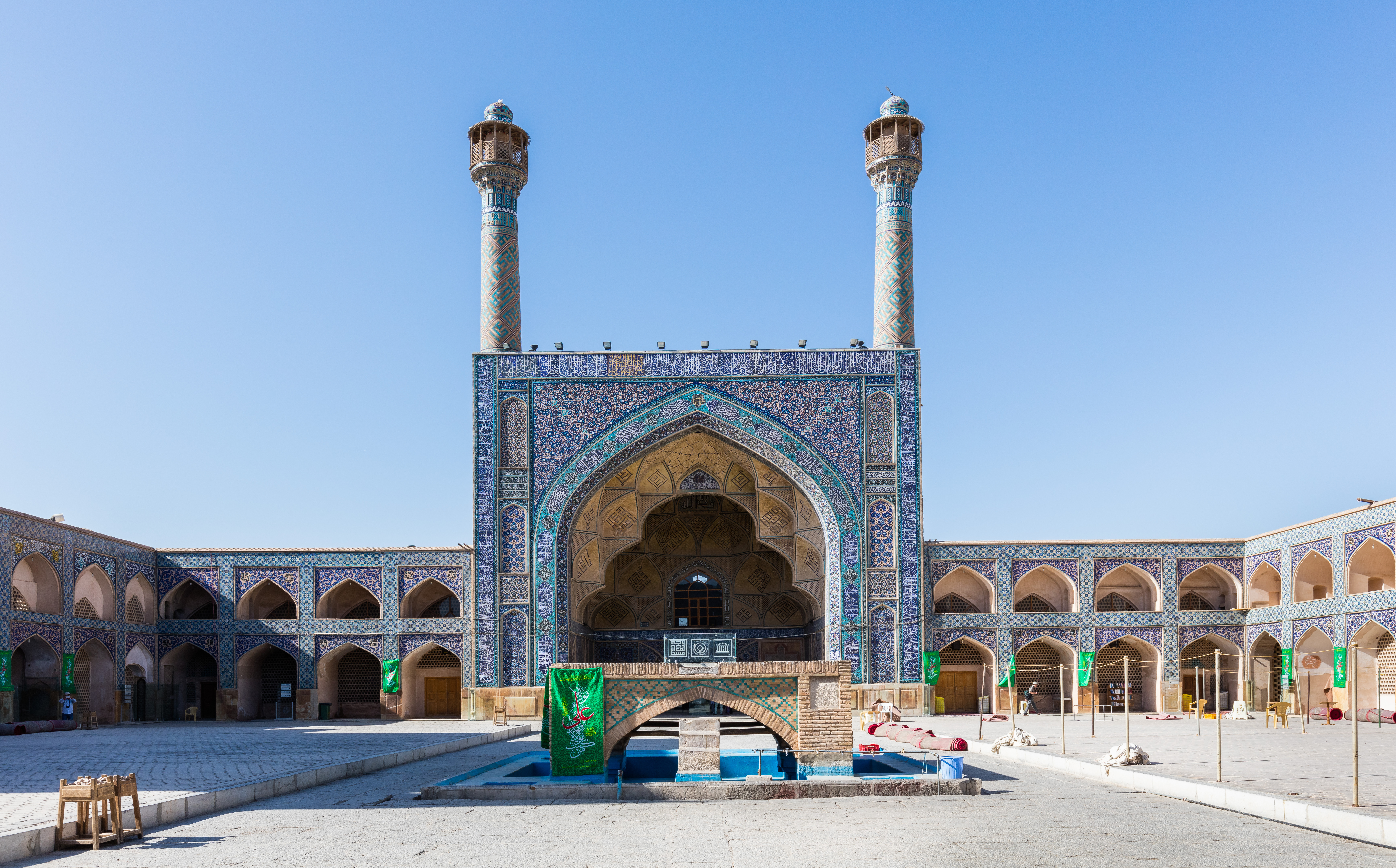 Jameh Mosque of Isfahan, Isfahan, Iran